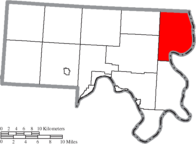 Map of the municipal and township boundaries of Meigs County, Ohio, United States, as of the 2000 census, with the location of Olive Township highlighted. Township borders are shown only in unincorporated areas in order to differentiate incorporated and unincorporated areas more clearly.